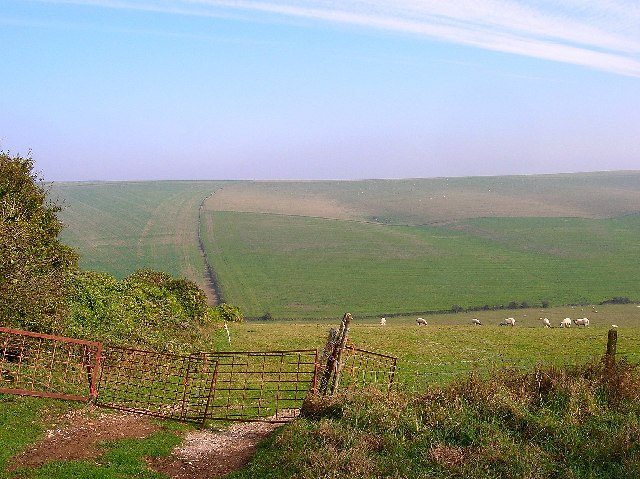 Downland viewed from High Hill. The view follows the fence as it travels to the north eastern end of the square.